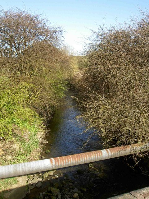 The River Went From the bridge known as standing flat bridge on the A639 near Thorpe Audlin.